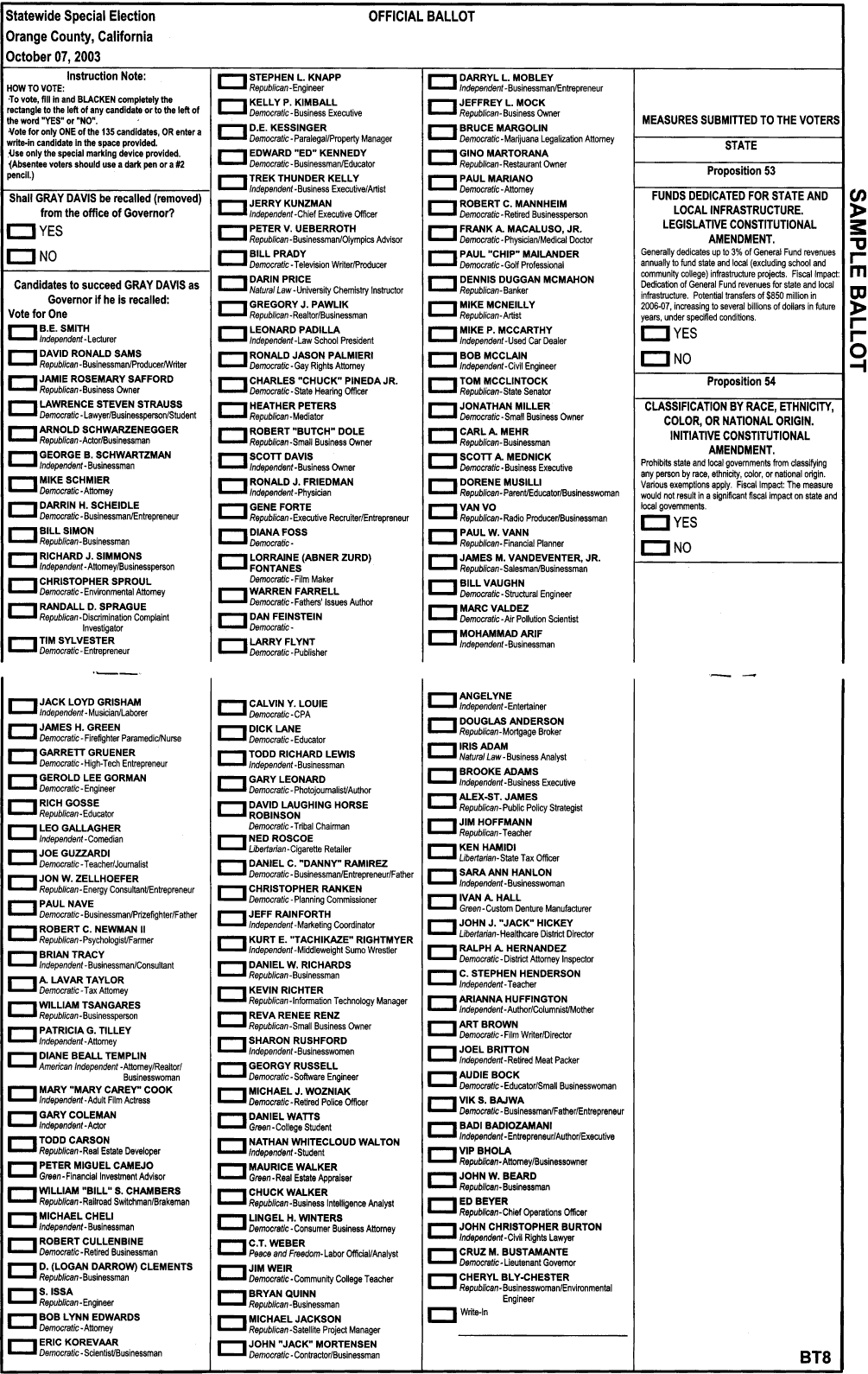 70th Assembly District (in Orange County) sample ballot for the October 7, 2003 California recall election